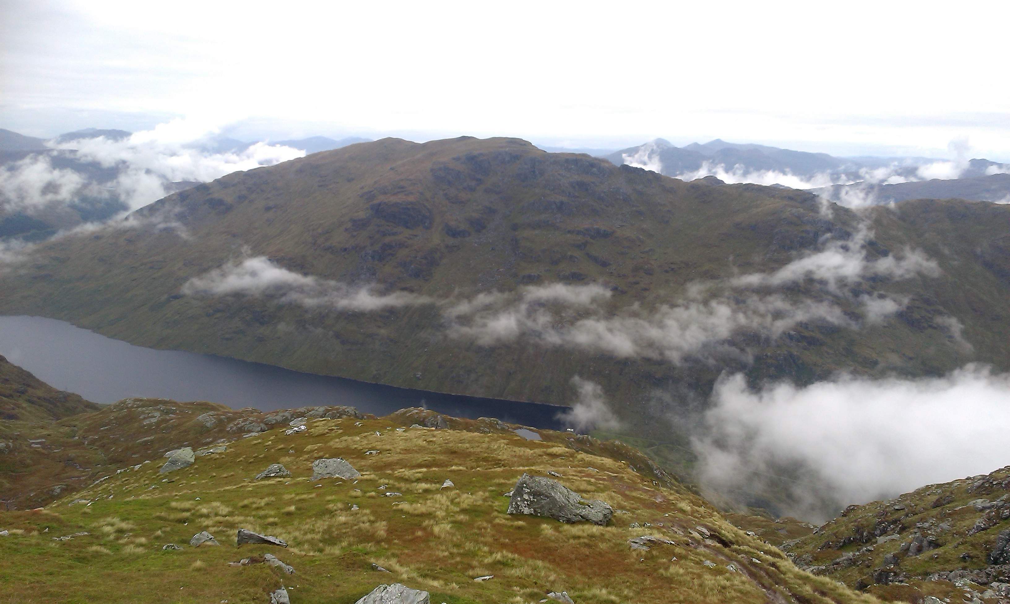 Loch Sloy at the foot of Ben Ben Vorlich from the summit of Ben Vane.